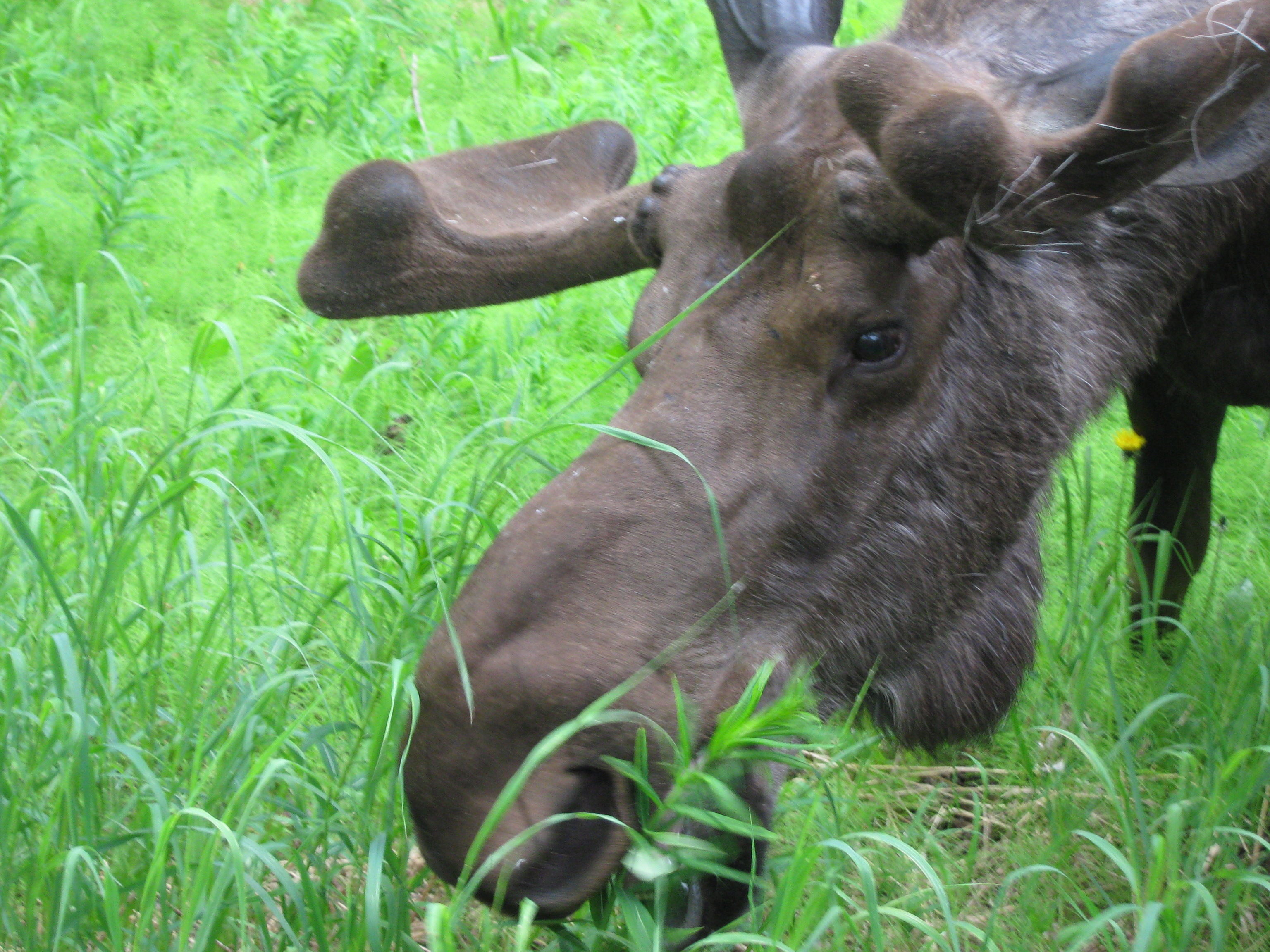 Bull moose feeding on dandelions and weeds, eating a fireweed plant.